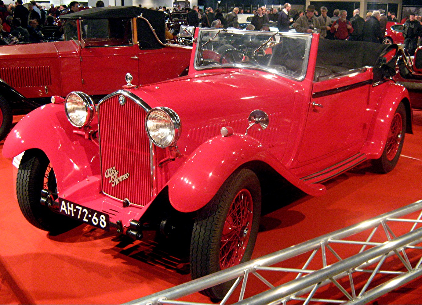 InterClassics & TopMobiel at the MECC in Maastricht